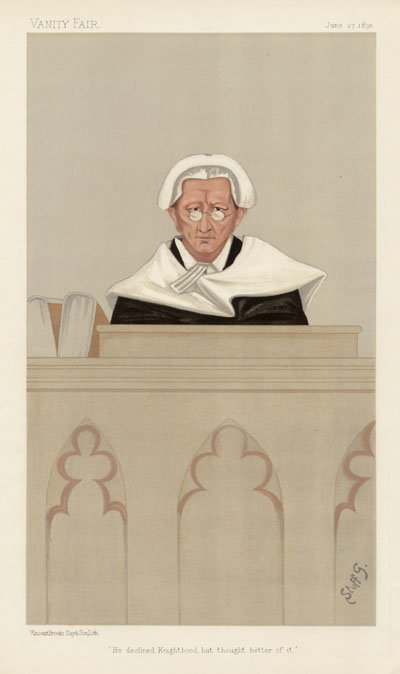 Judges No.33: Caricature of Mr Justice Wright. For an explanation of the caption see [1]. Caption reads: "He declined a Knighthood but thought better of it"